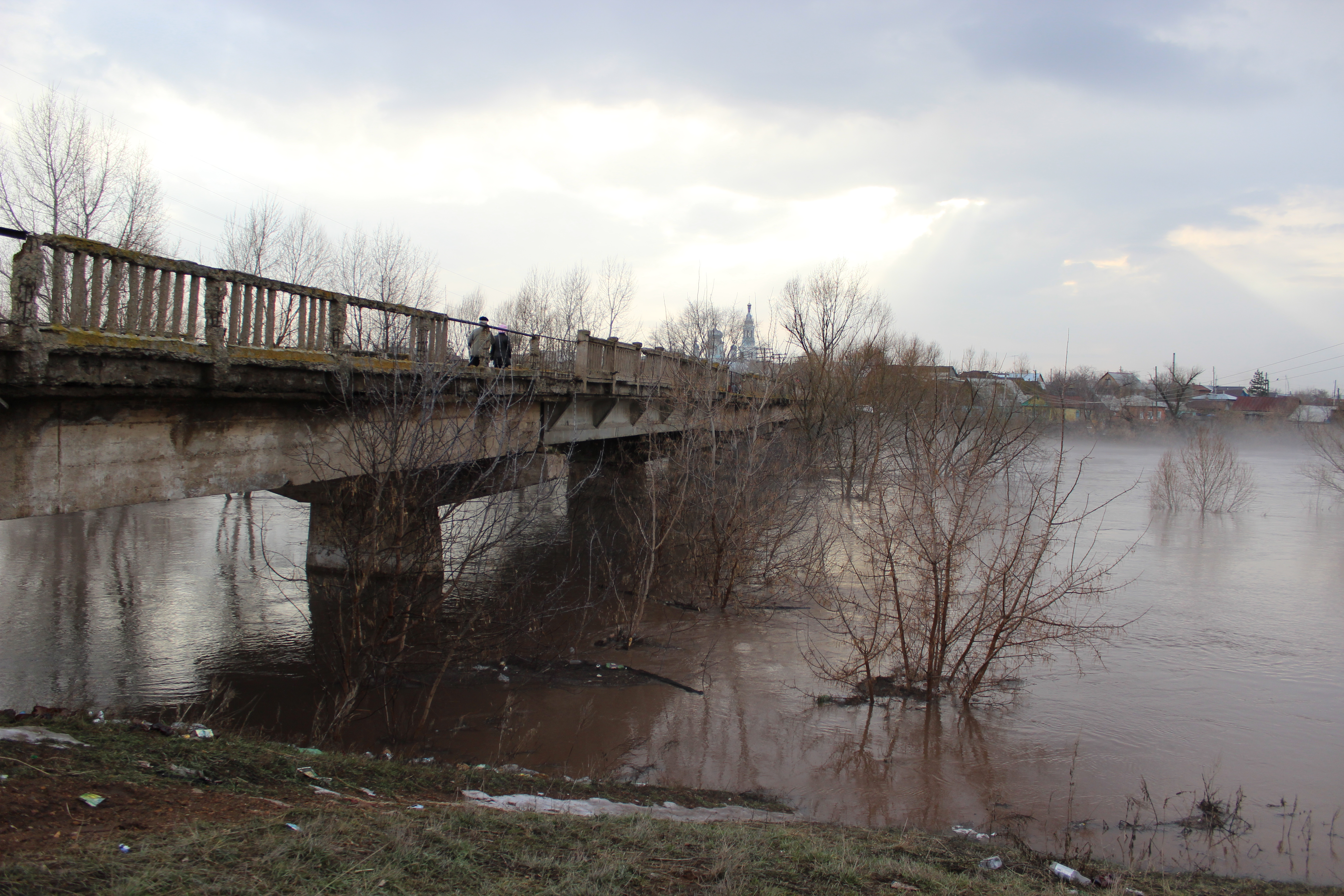 Sorochinsk. Old Bridge. The flood of 2013.